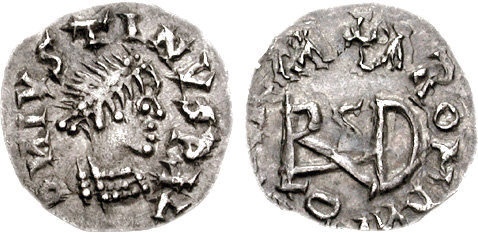 Coin of the Gepids. Sirmium mint. Struck in the name of Justin I, 517-527 CE. AR Quarter Siliqua (0.62 g, 6h). D N IVSTINVS P LV (first N retrograde), pearl-diademed and cuirassed bust right / VINVICTL ROMLNI, large “Theodericus” monogram across fields, cross above; all within wreath.